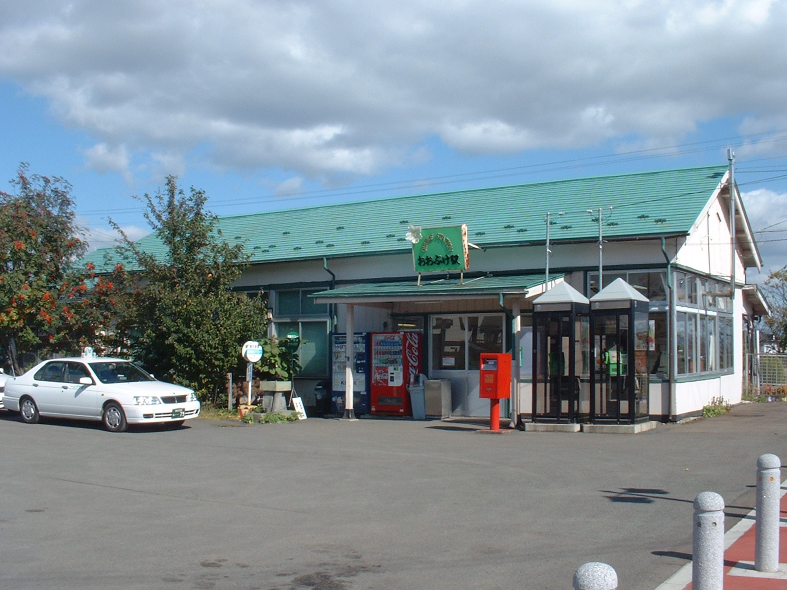 Obuke Station building